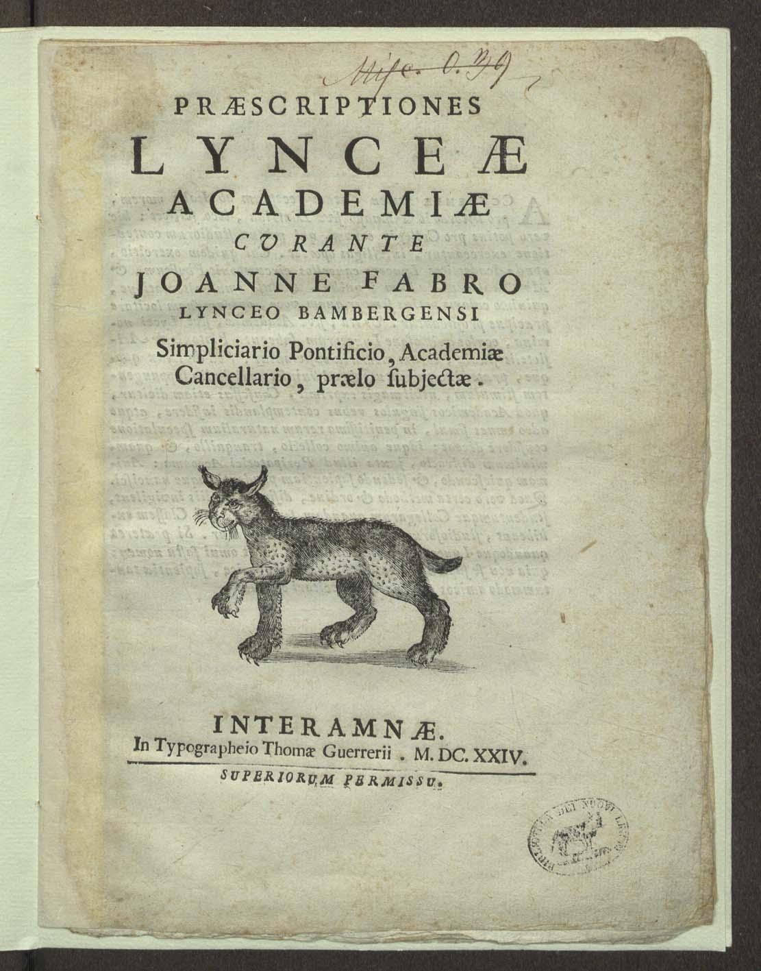 Praescriptiones Lynceae Academiae: title page